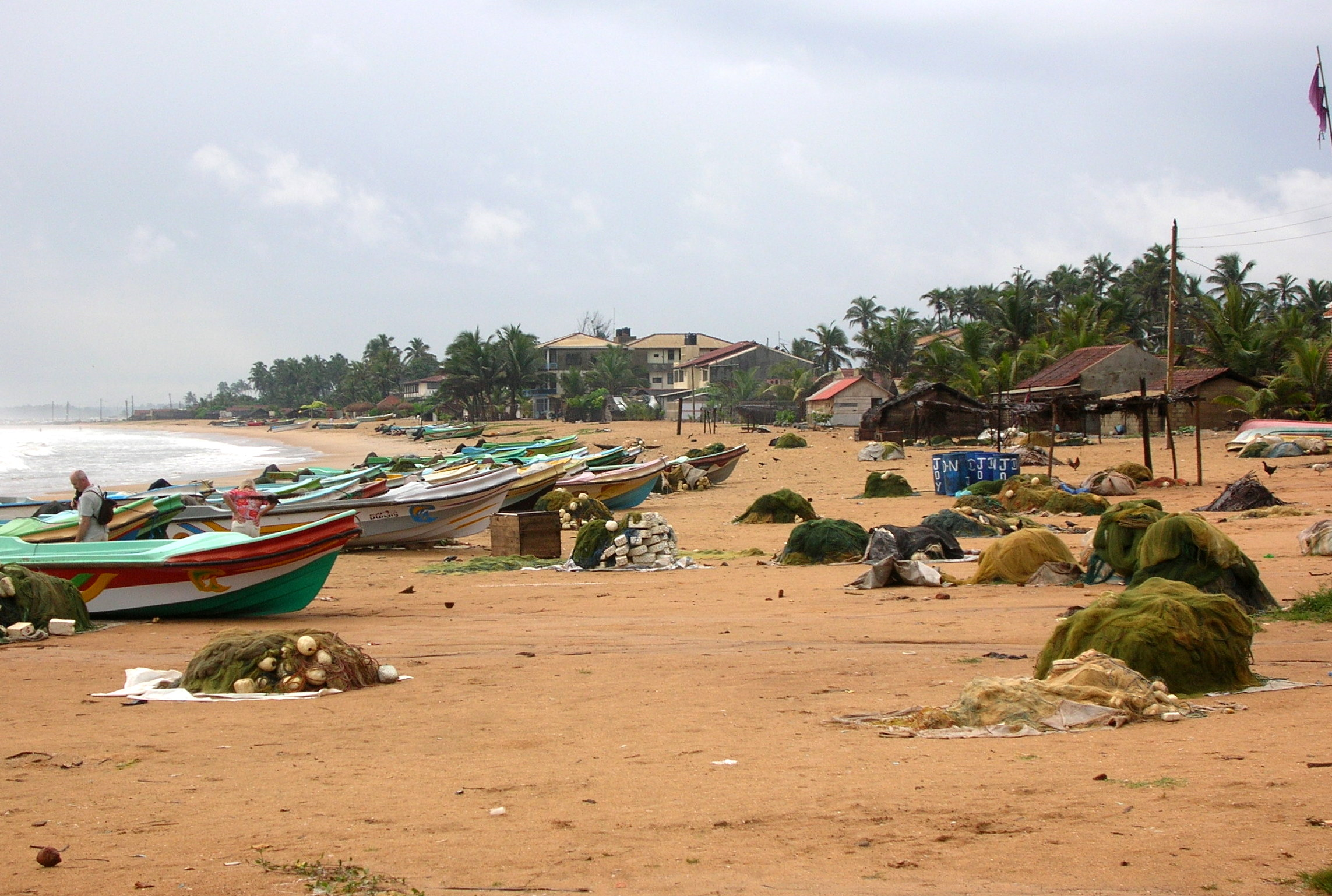 Fishing boats in Negombo, Sri Lanka